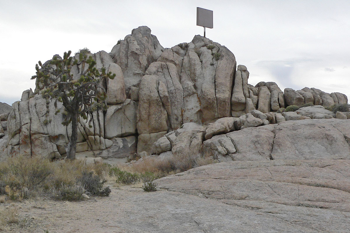 The Mojave Memorial Cross seen boarded-up in March 2006. The paved road passing by is just out of sight to the right of this picture.